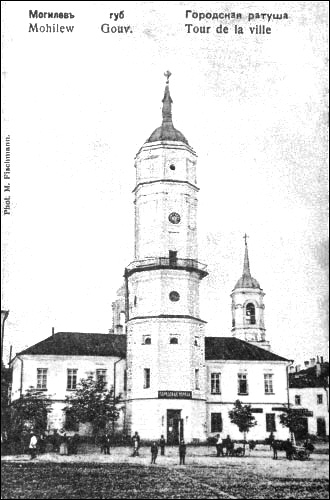 Mahilyow Rathaus (Tour de la Ville). Old Postcard.